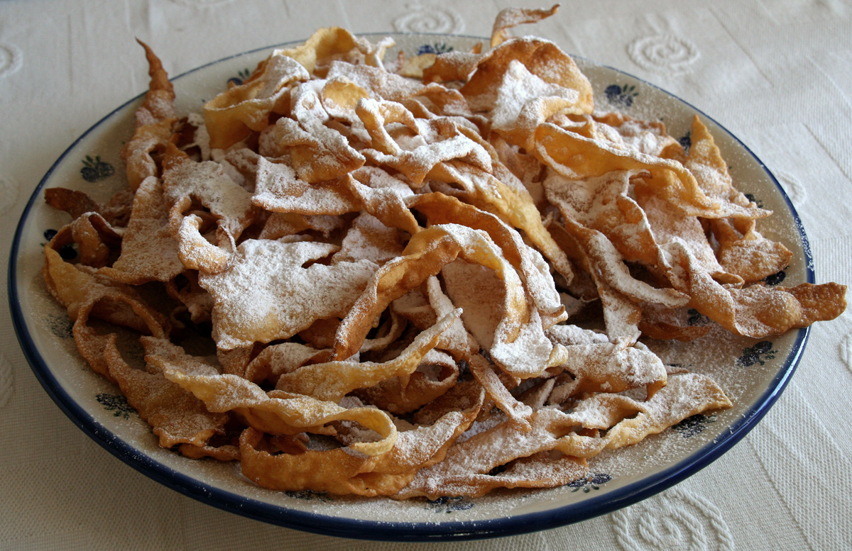 A plate full of faworki, traditional Polish sweet crispy biscuits